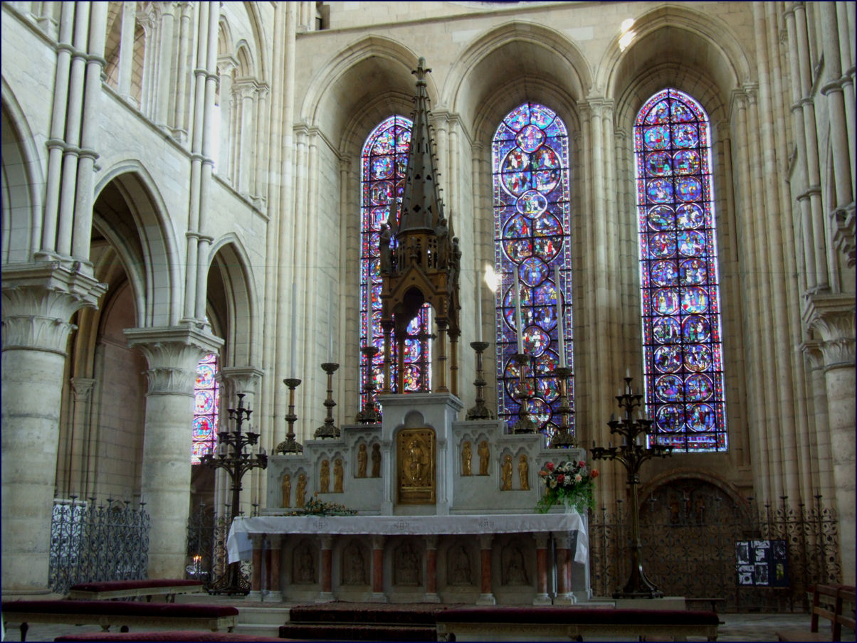 Altar of the cathédrale Notre-Dame de Laon (Cathedral Notre Dame of Laon), Laon, France - Interior